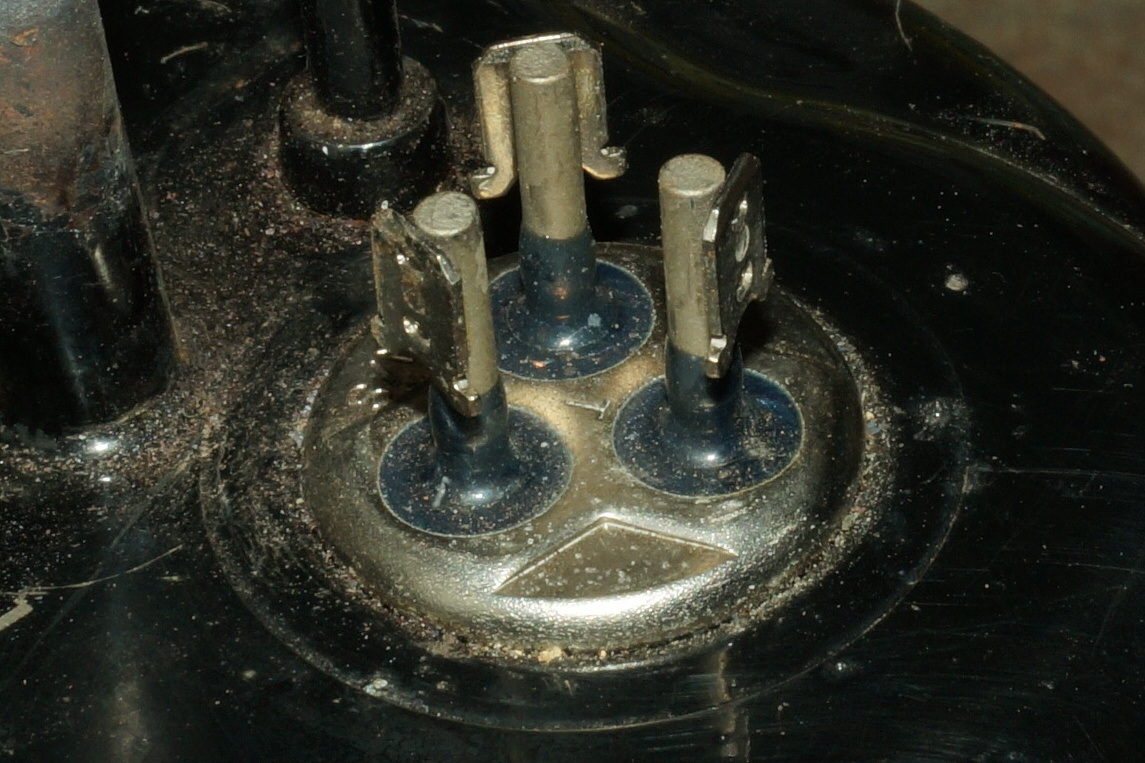 Electric power terminal feedthrough (compression glass-to-metal seal) welded to a hermetic compressor housing.